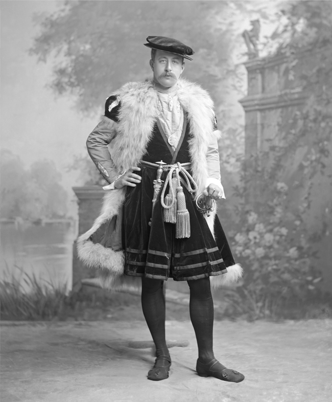 Victor Christian William Cavendish, 9th Duke of Devonshire as an Ambassador after Holbein's picture in the National Gallery